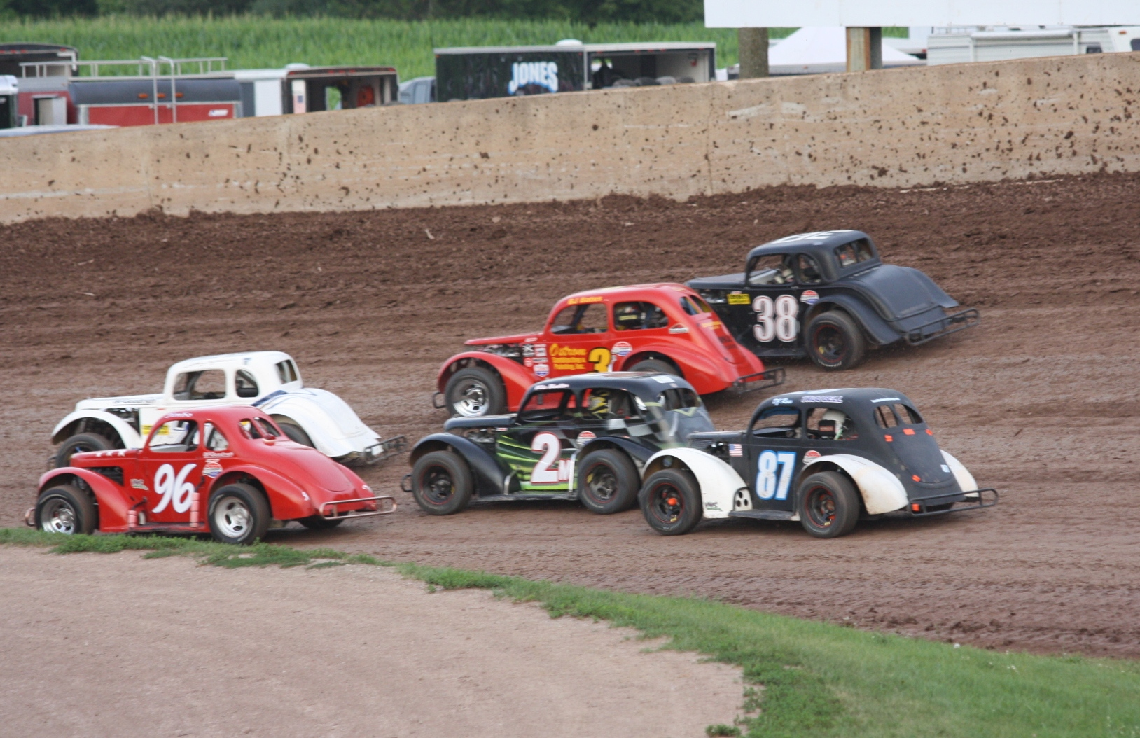 Legends cars racing 4-wide off a corner at the Beaver Dam Raceway in Beaver Dam, Wisconsin.